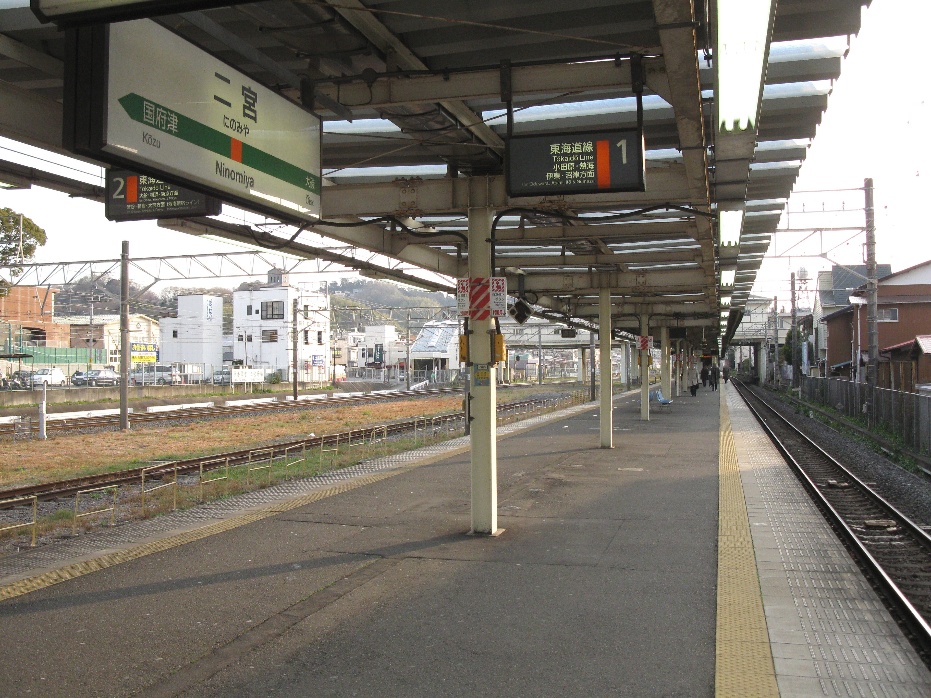 Ninomiya Station platform (East Japan Railway(JR East) Tōkaidō Main Line)